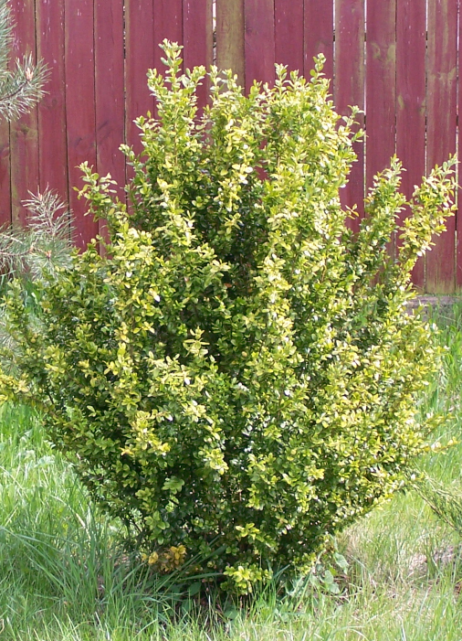 Buxus sempervirens, Family:Buxaceae